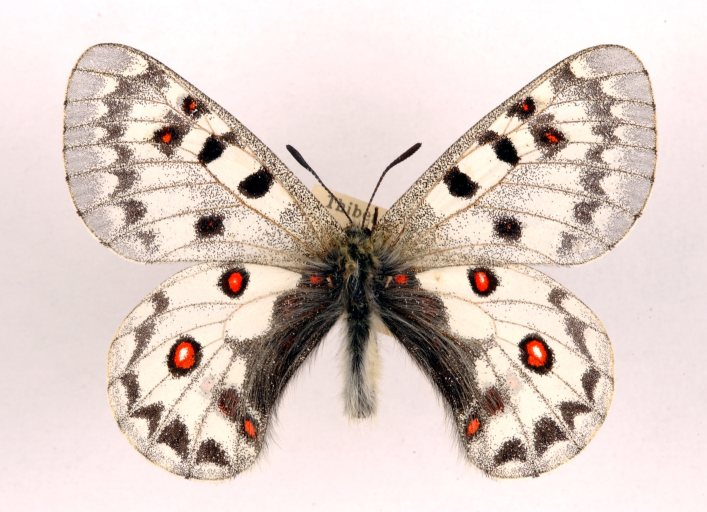 Parnassius jacquemontii subspecies gartokensis Paralectotype from the Ulster Museum